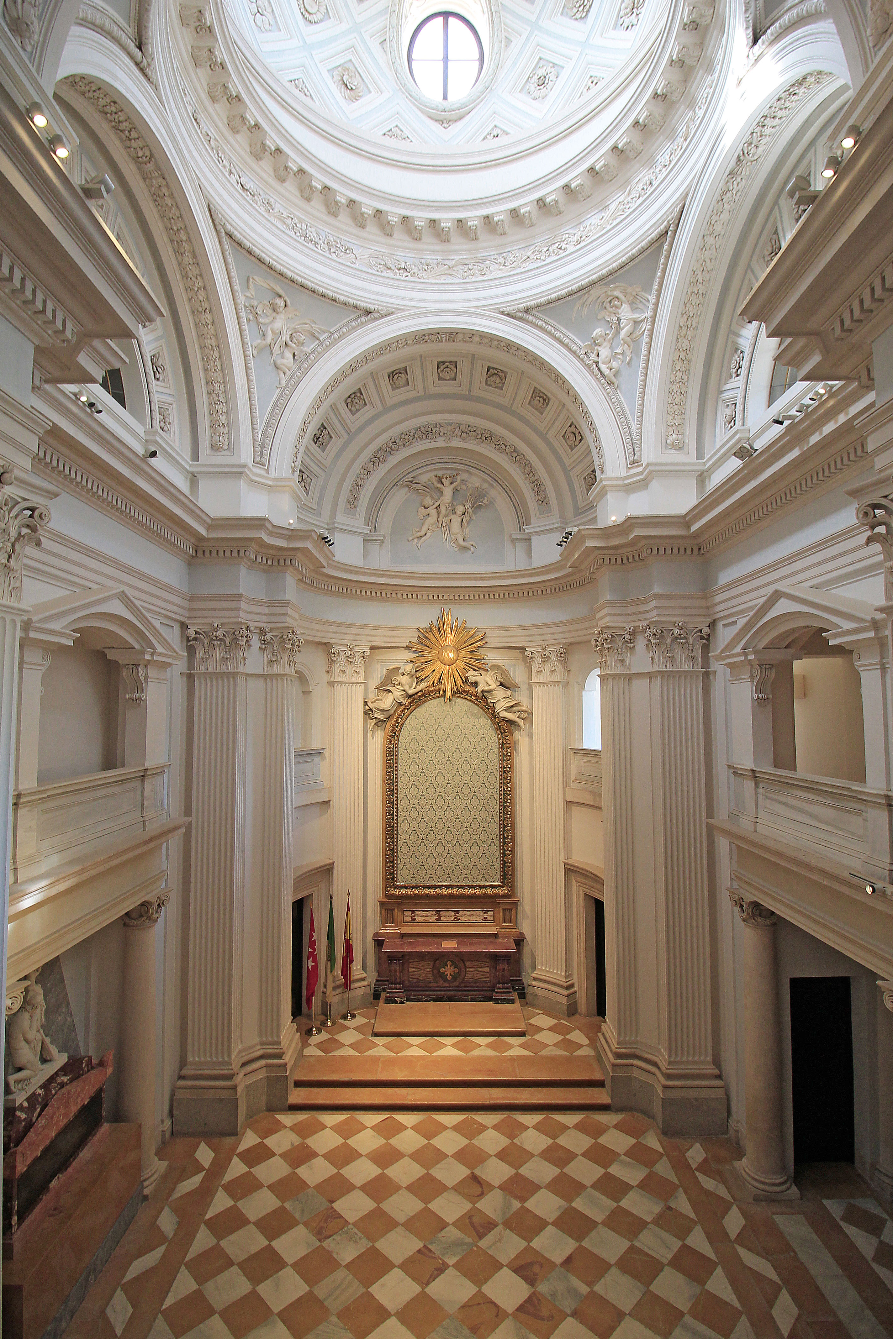 Chapel of the Palace of Infante don Luis in Boadilla del Monte (Community of Madrid, Spain).